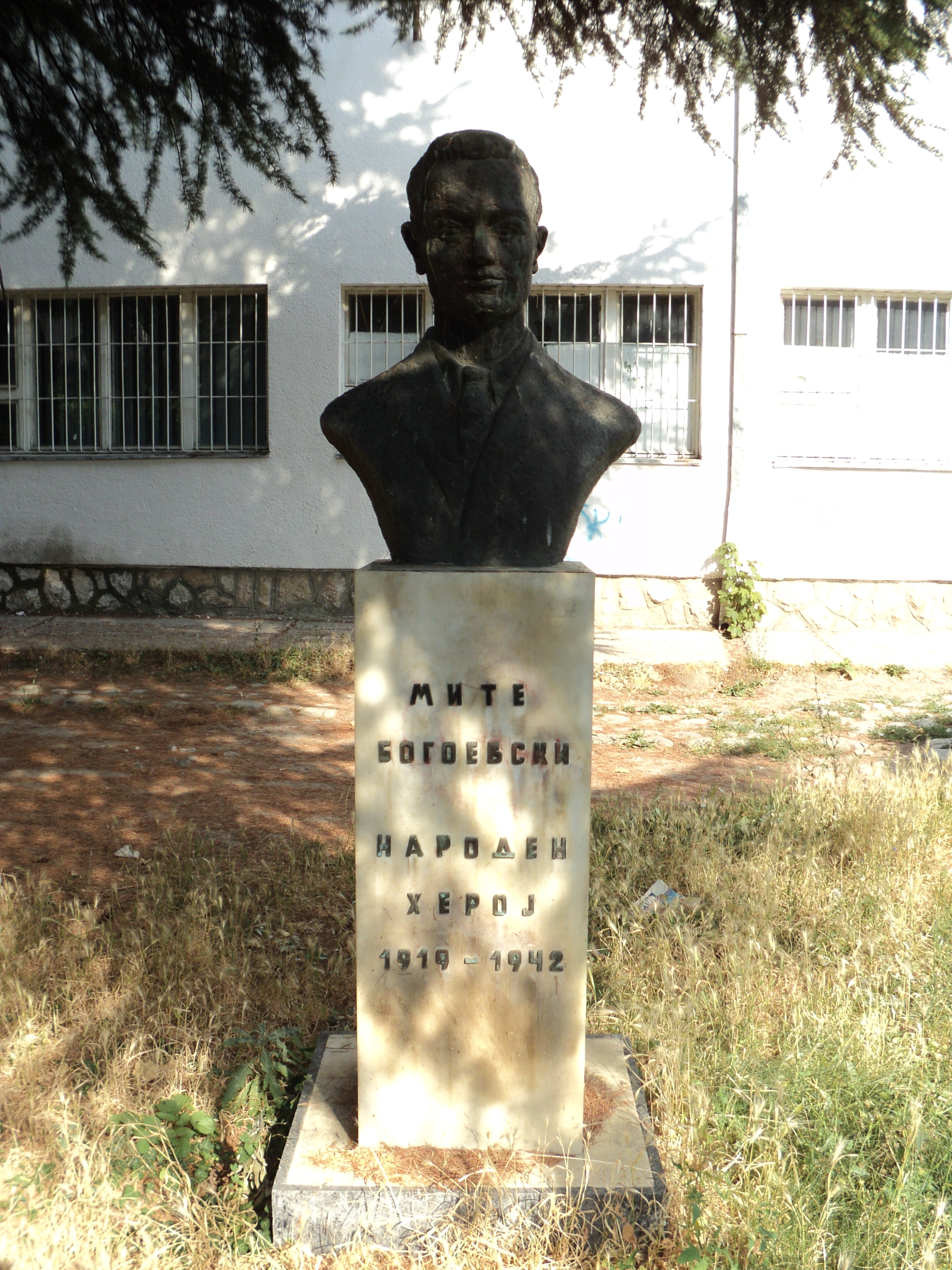 Bust of macedonian poet and People's hero of Yugoslavia, Mite Bogoevski, in Ohrid.